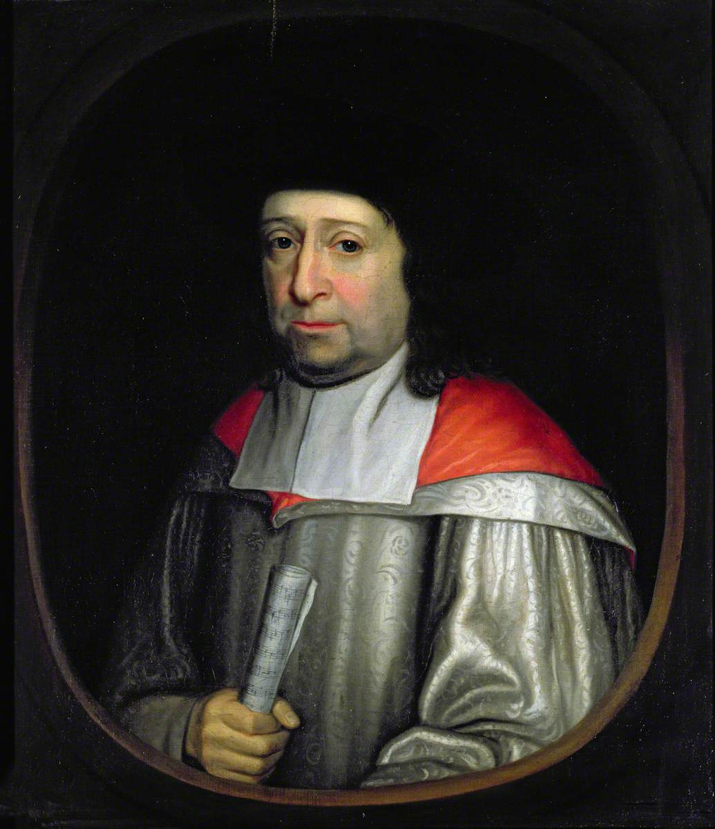 This is a c. 1664 century painting of Christopher Gibbons by unknown painter. The painting is kept in the Faculty of Music Collection, Oxford University. It is an oil painting and is 74.9 x 63.5 cm.